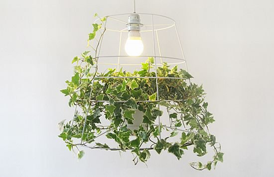 Photosynthesis-lamp123